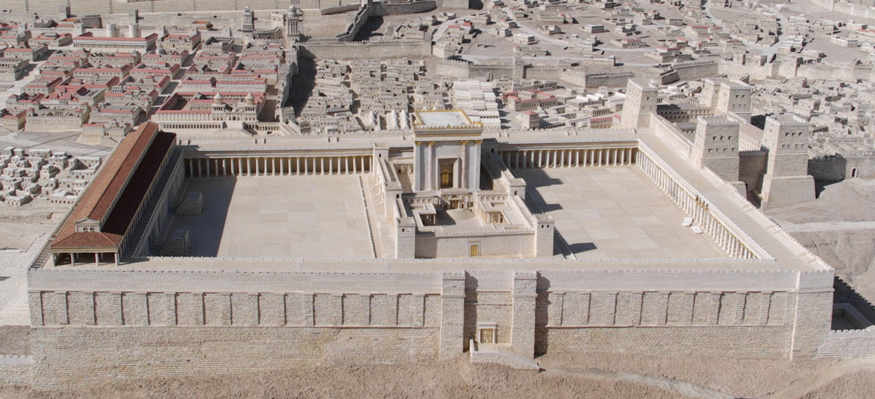 Holyland Model of Jerusalem. A model of Herod's Temple adjacent to the Shrine of the Book exhibit at the Israel Museum, Jerusalem.